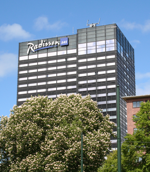 Picture of the SAS Radisson hotel, Oslo. Photo by Quevaal